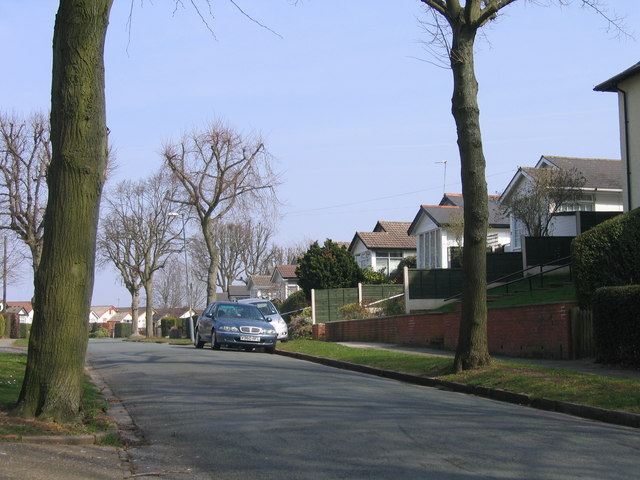 "Austin" Houses, Hawkesley Crescent, Northfield. View from crossroads with The Mill Walk.